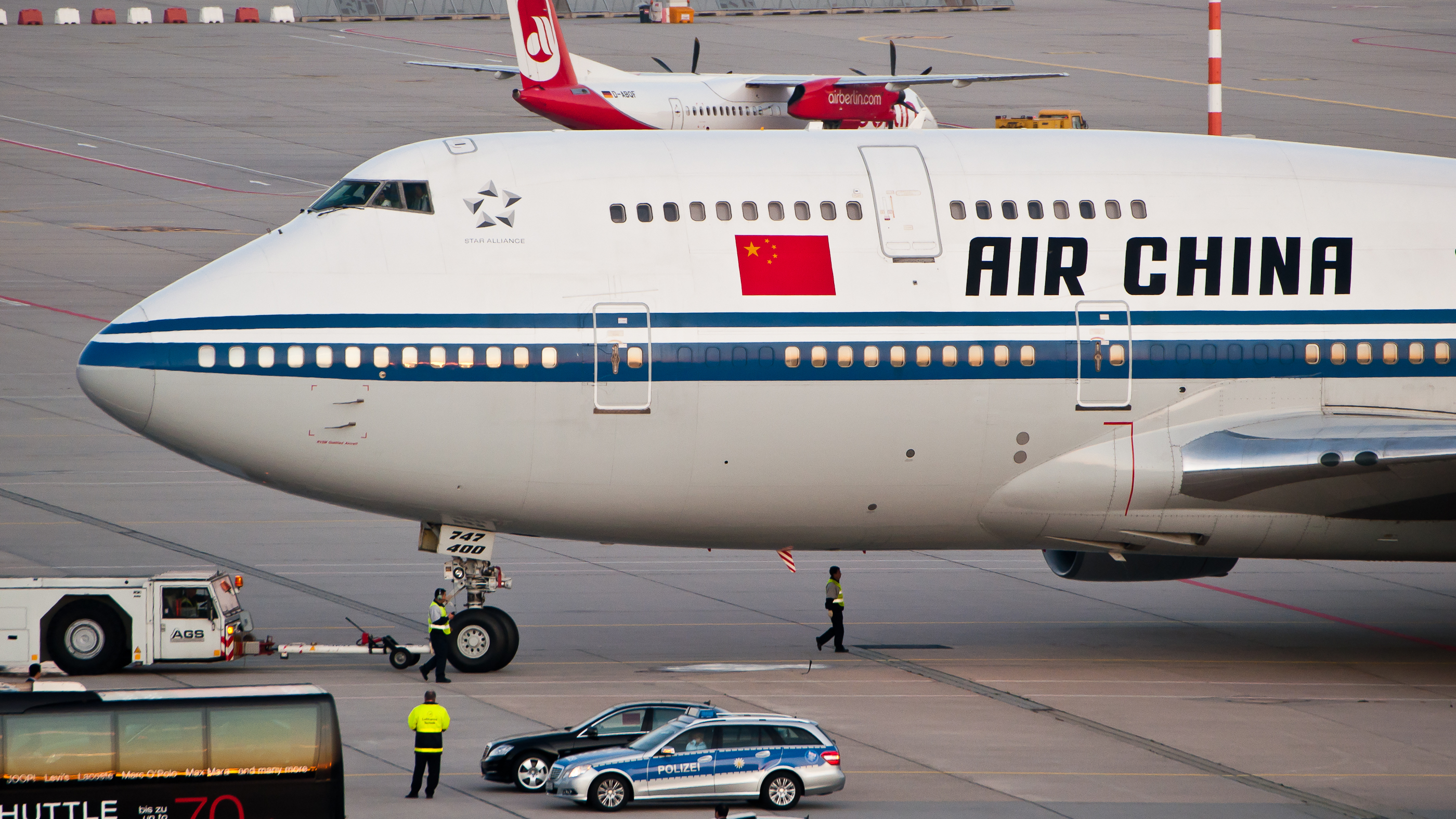 Air China Boeing 747-4J6, Registration:B-2447 - Stuttgart Airport (EDDS/STR)